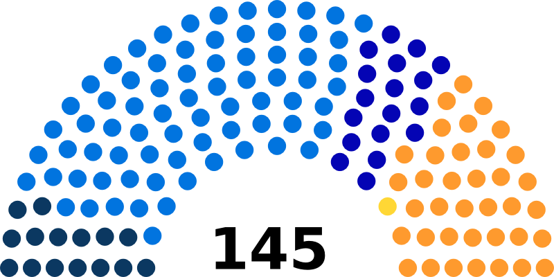 Seats diagramme of Swiss National Council (1884)